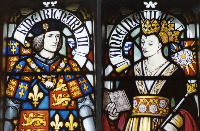 Stained glass image of the King and Queen found in Cardiff Castle, United Kingdom.